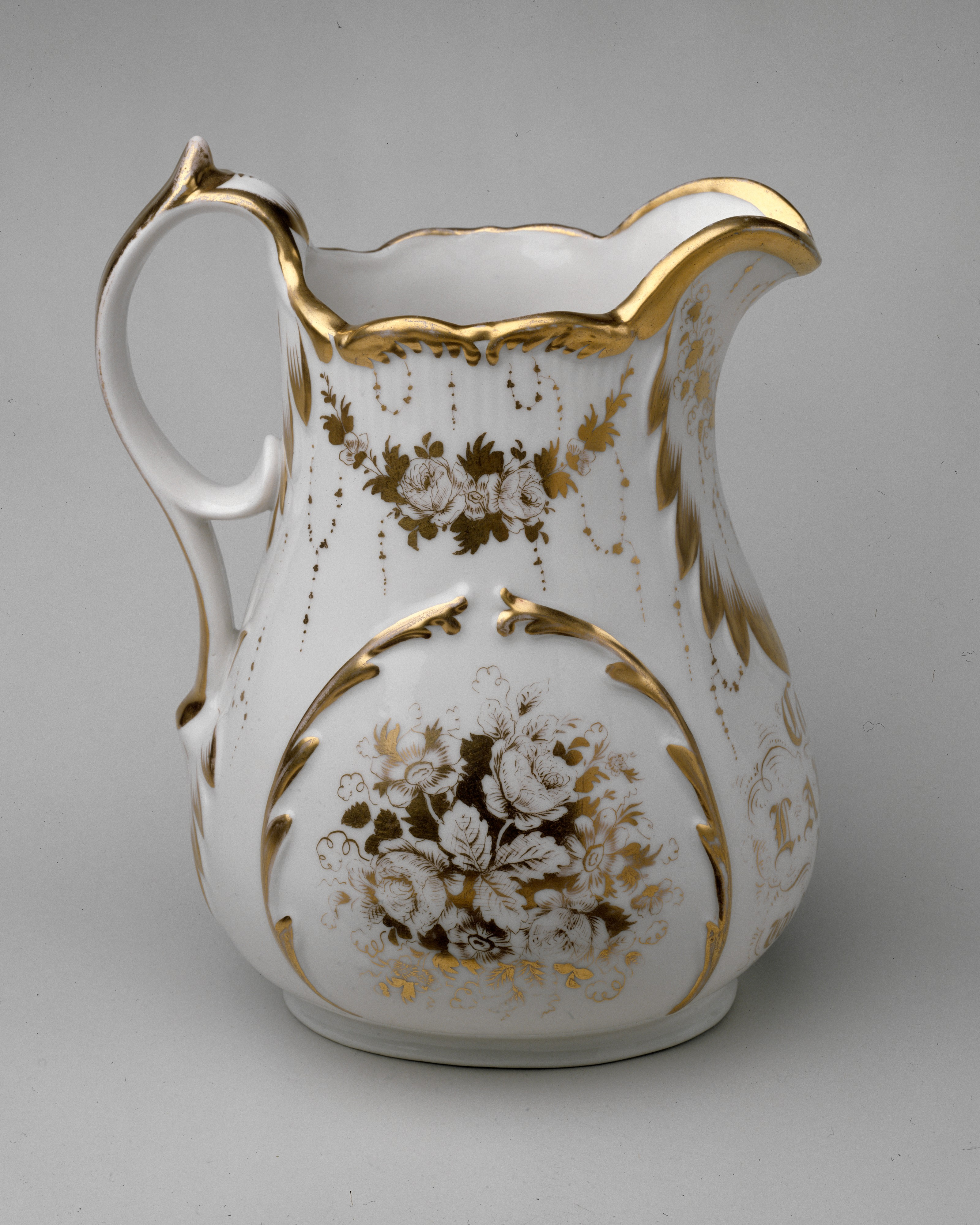 American; Pitcher; Ceramics